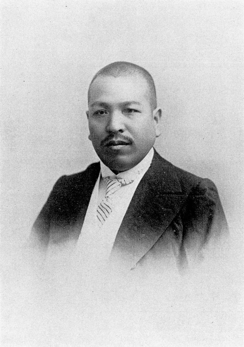 H. Tomizu, Professor of Roman Law in the Imperial University of Tokyo.